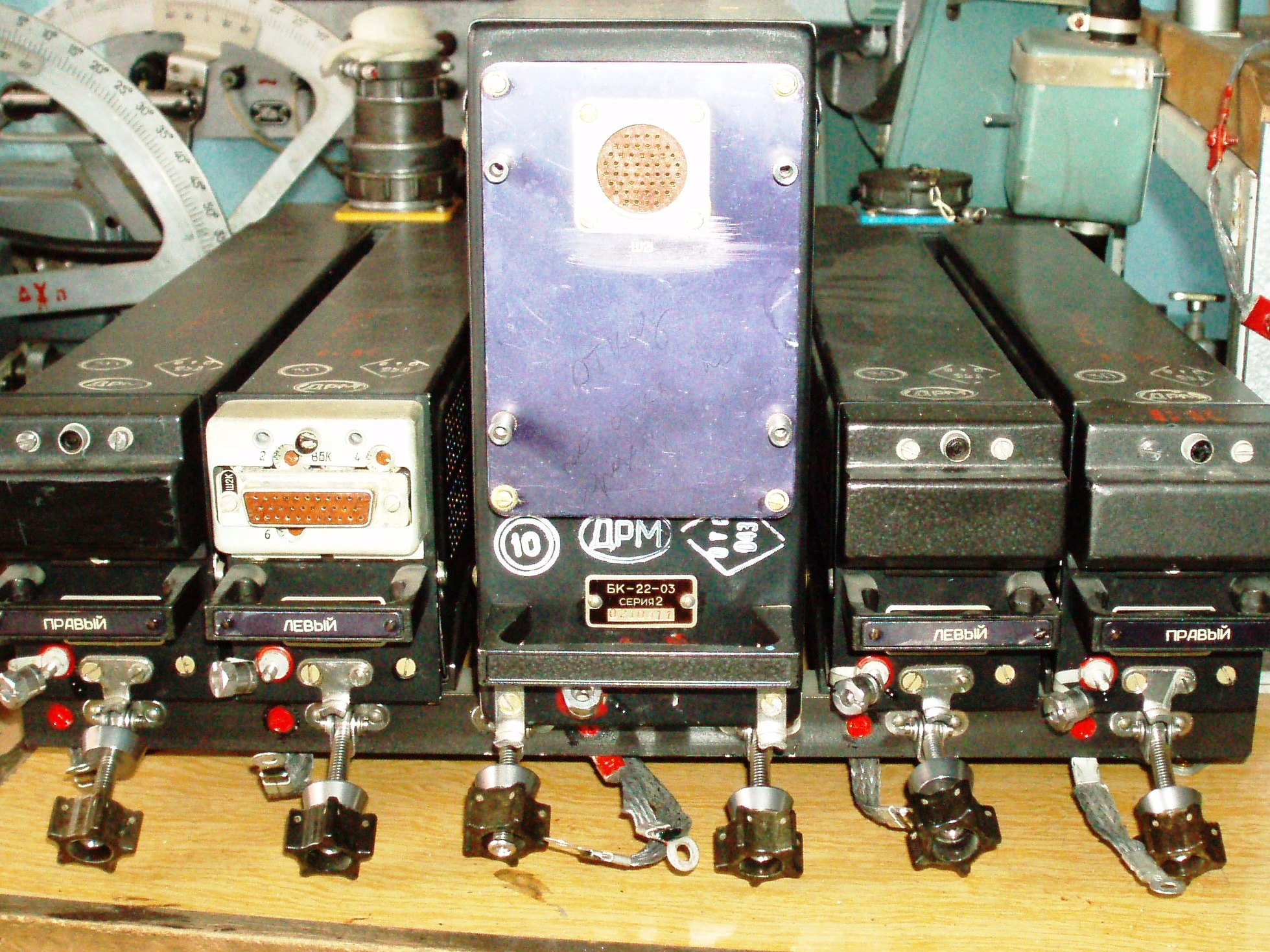 Система траекторного управления БОРТ